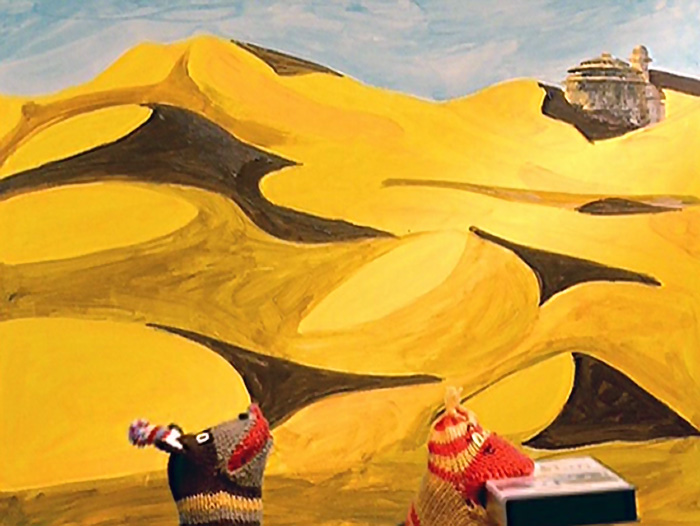 monochrom's "Kiki and Bubu: Rated R US" (2011)